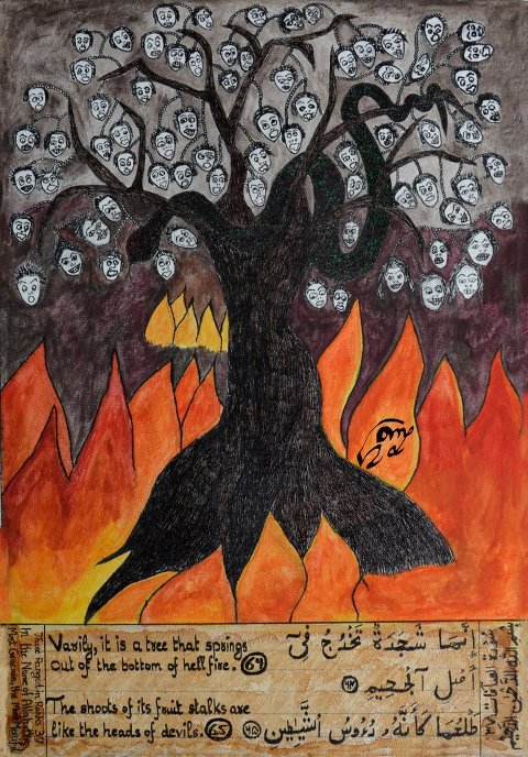 The fruit of the dwellers of hell-fire.